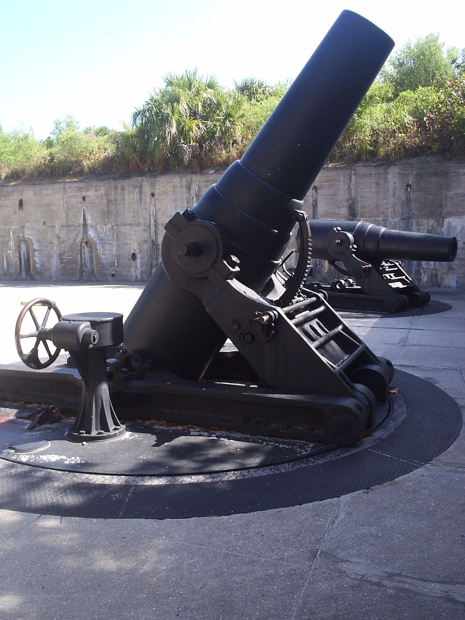 Taken by me at Fort Desoto Park, Pinellas County, Florida. Olympus Camedia D-395 digital camera. CC-BY-SA-2.5 Mikereichold 00:47, 17 March 2006 (UTC) Many cranks, wheels, and bits of the operating mechanisms have been removed from the mortars on display.